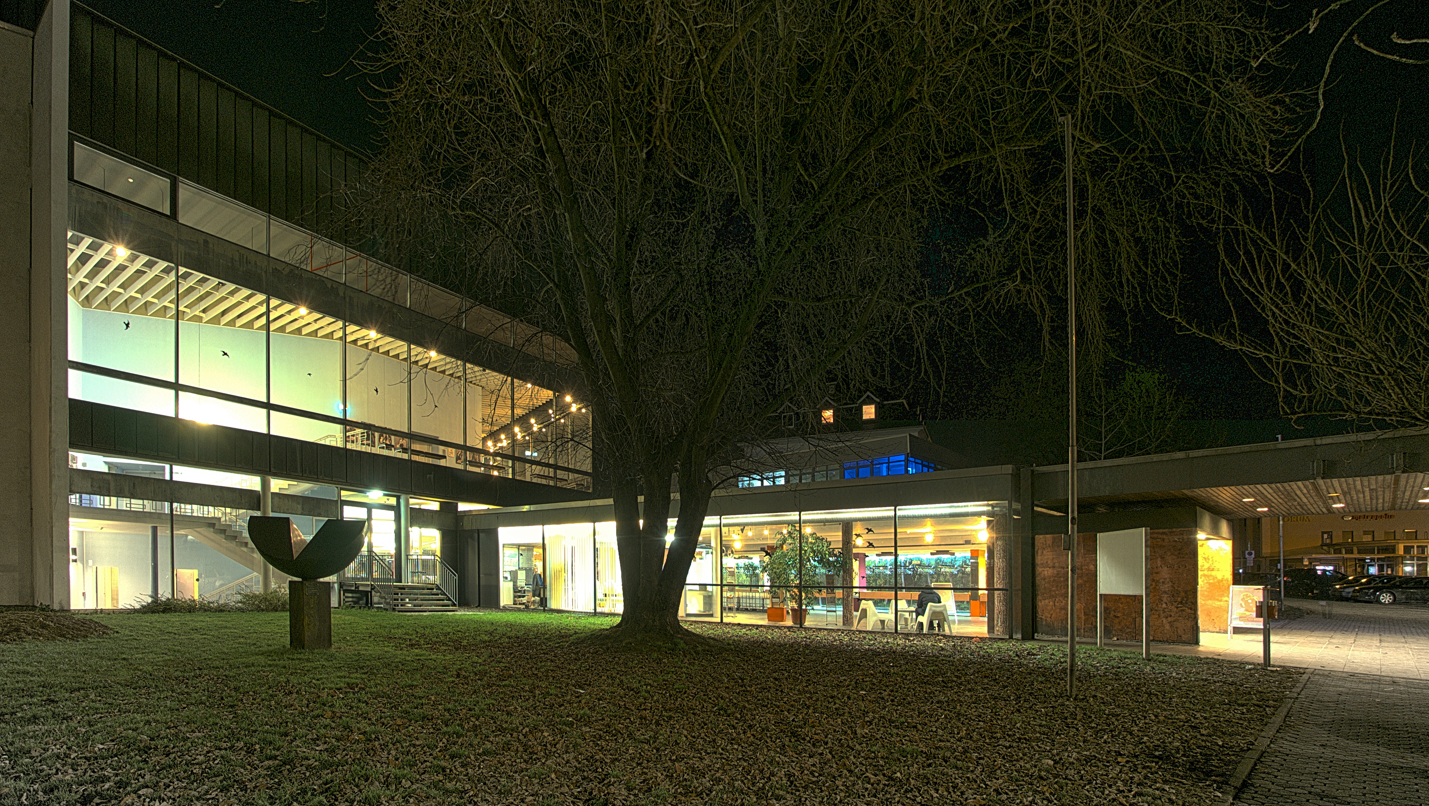 Trier (Germany), municipial theater, entrance building